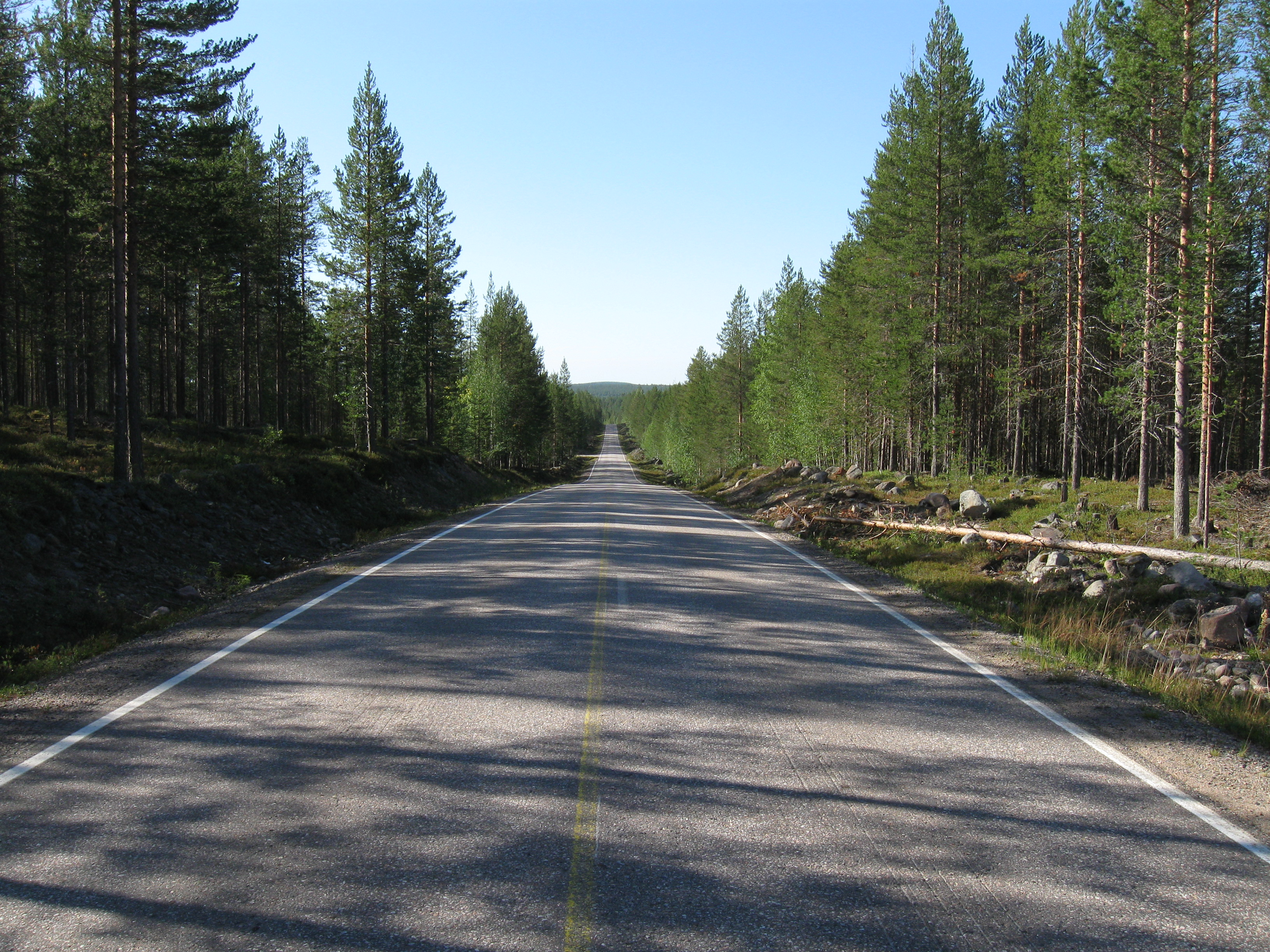 The Finnish regional road 944 a few kilometers south of Kemijärvi, seen towards South-West.